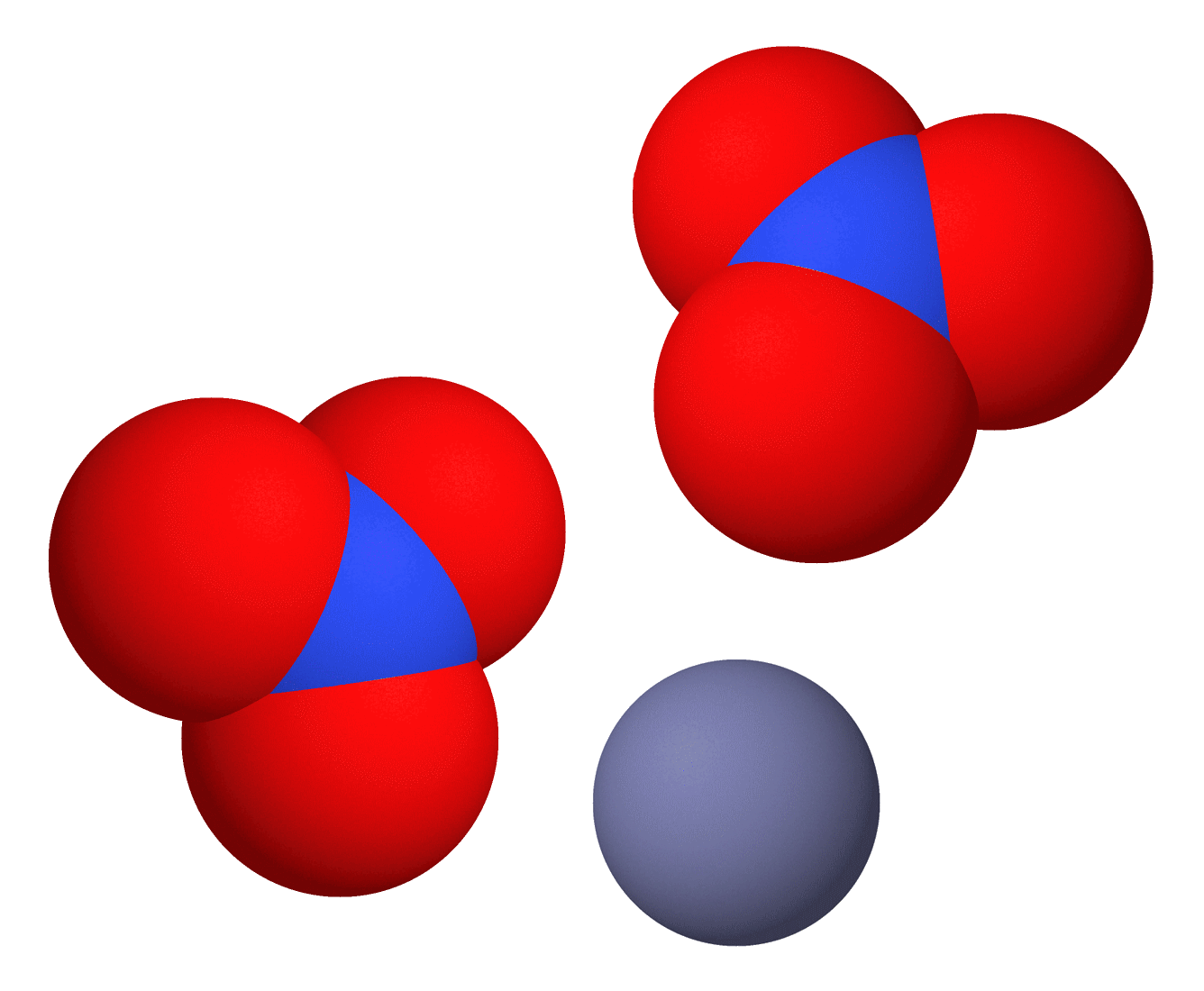 Zinc nitrate 3D chemical structure